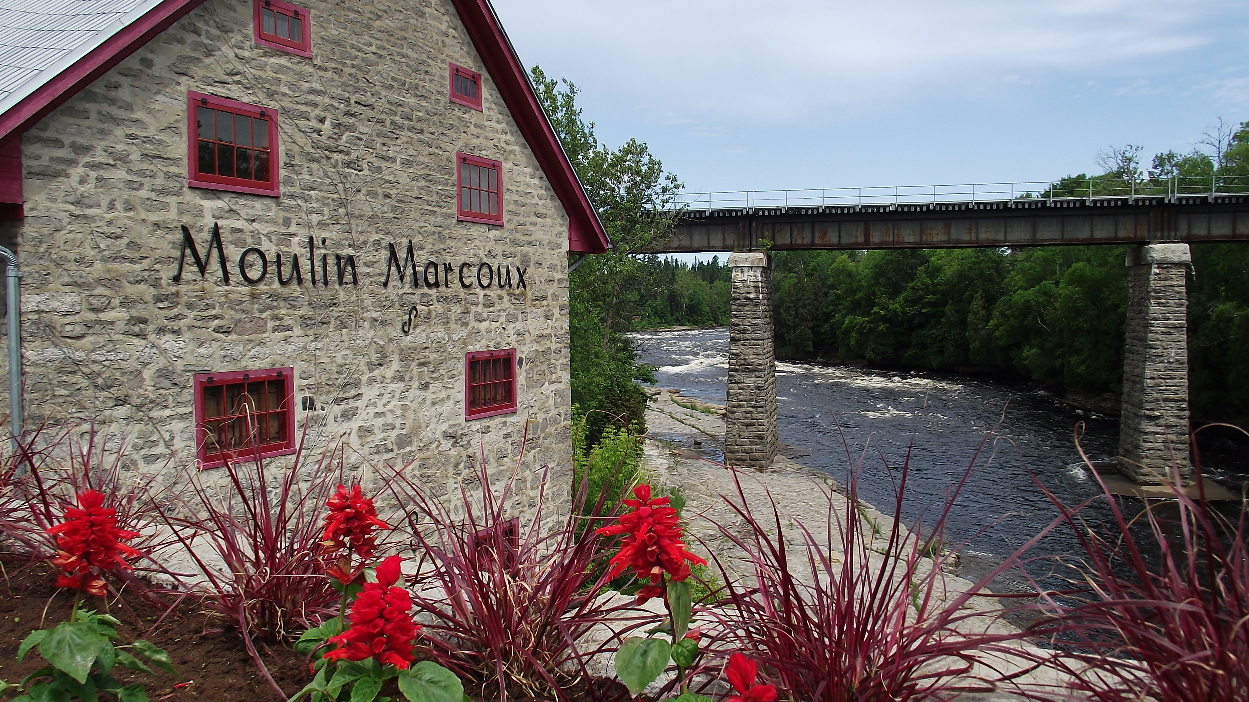 Le Moulin Marcoux is an ancient mill which used hydropower from the Jacques-Cartier River to produce flour. Eventually, it was abandoned and under the threat of destruction, until citizens decided to restore it. Rooms which formerly contained the equipment currently host a theater hall and an art gallery.